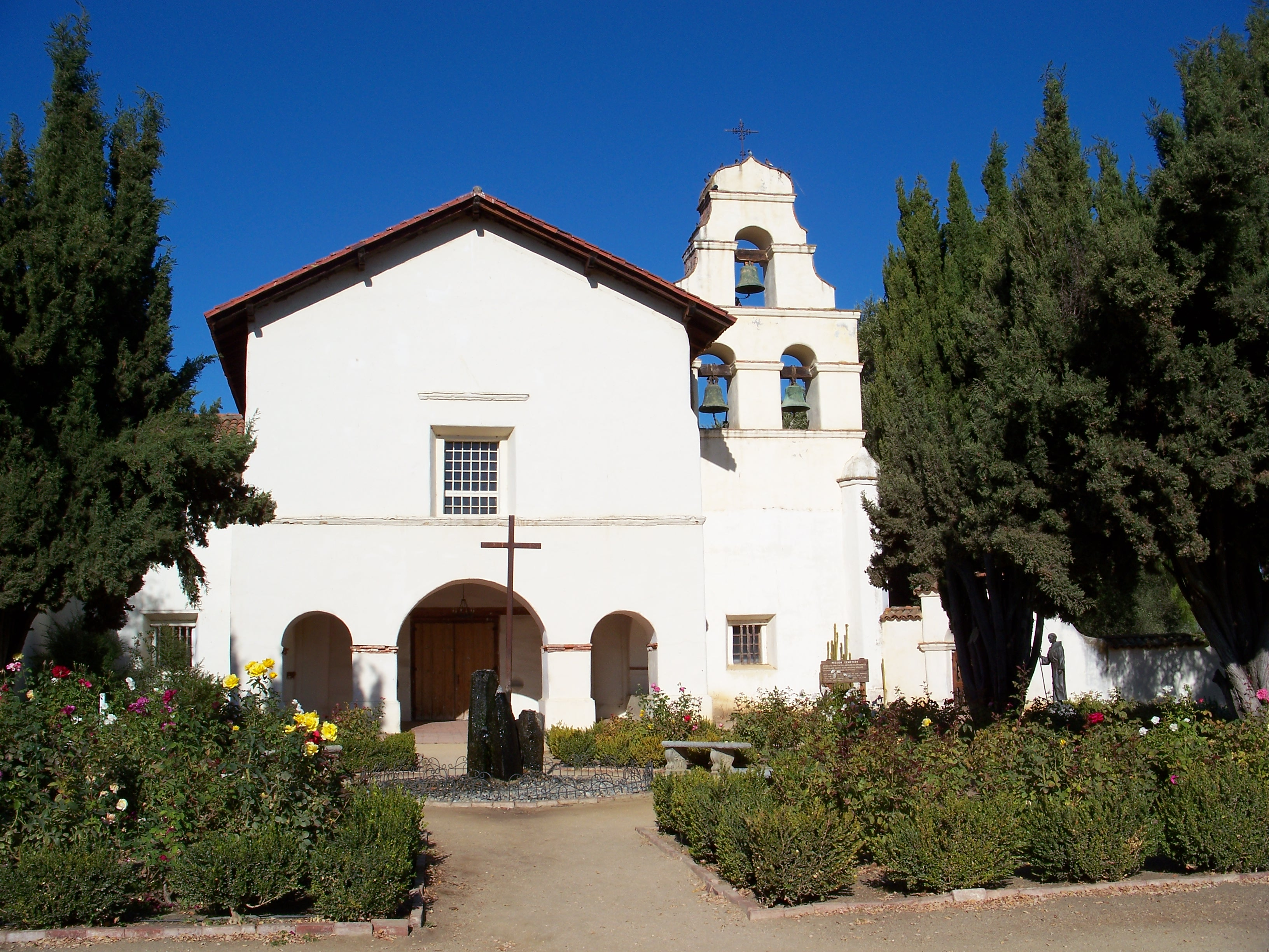 Mission San Juan Bautista. San Juan Bautista, California, USA